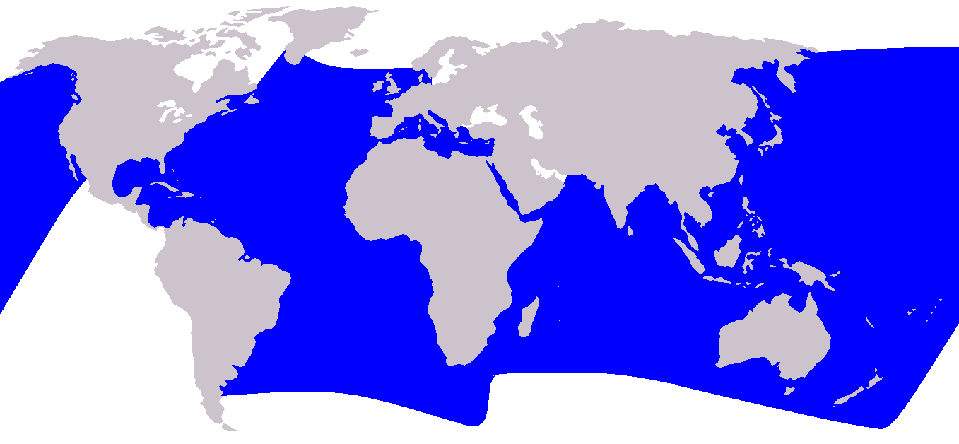 User:Pcb21 after User:Vardion. See Wikipedia:WikiProject Cetaceans for further details